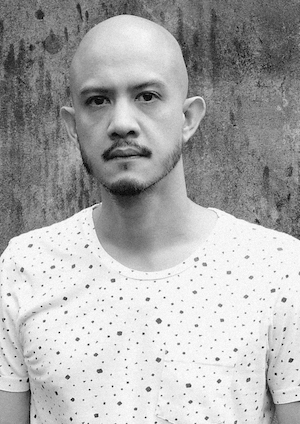 A portrait of Prabda Yoon in Bangkok in 2017